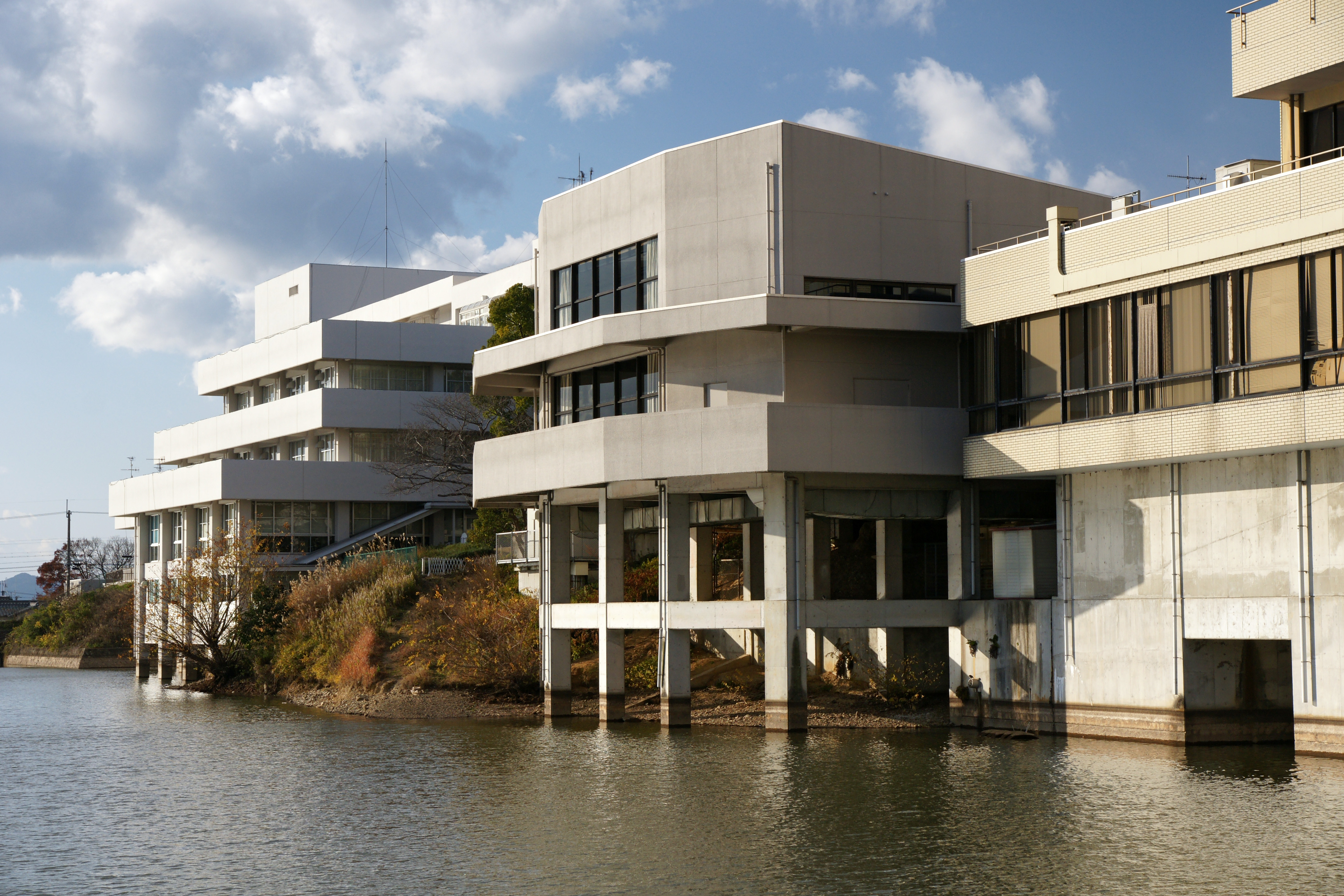 Ono City Tradition Industrial Hall in Ono, Hyogo prefecture, Japan.